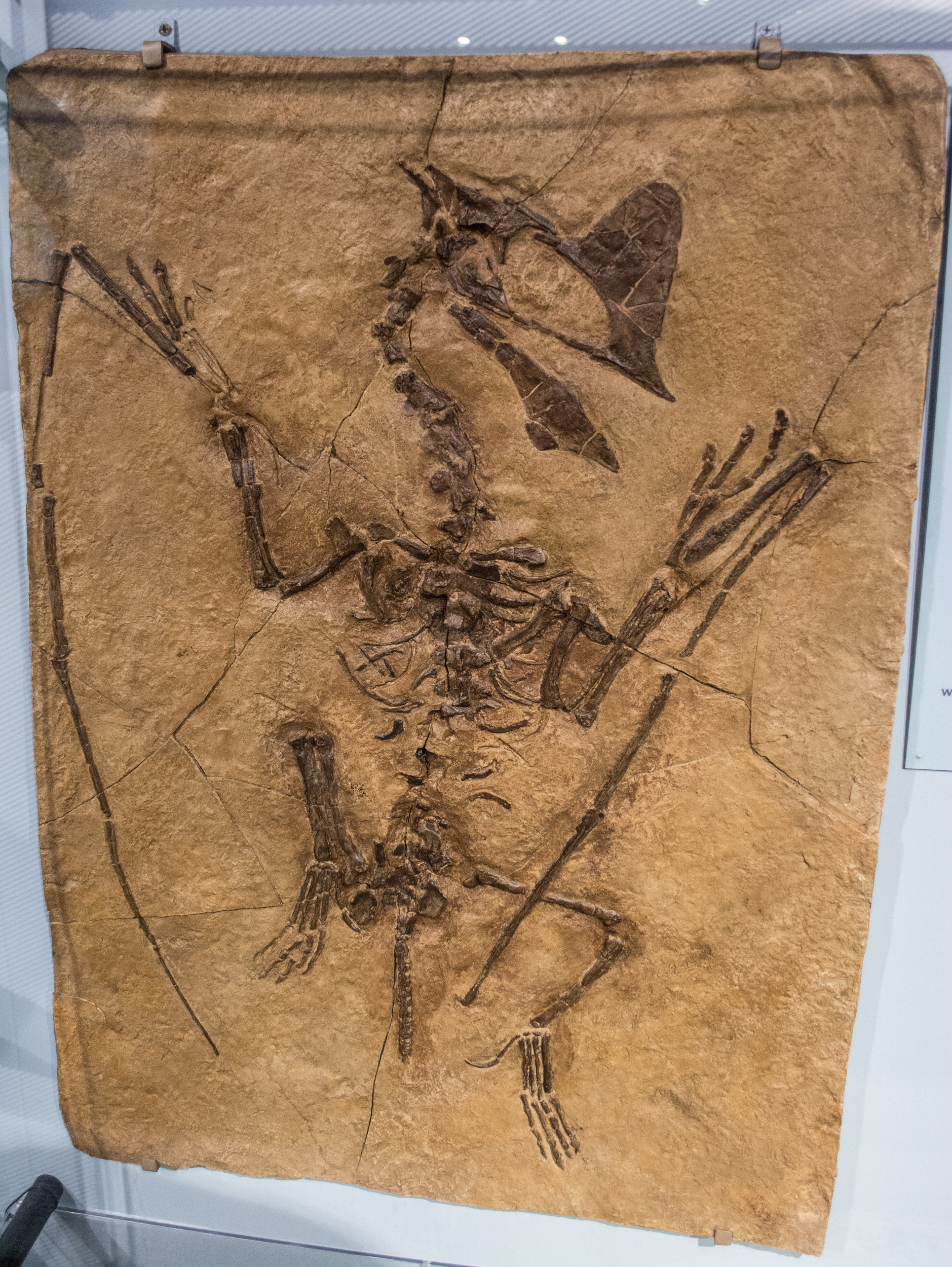 Cast of Tapejara wellnhoferi - Pterosaurs Flight in the Age of Dinosaurs